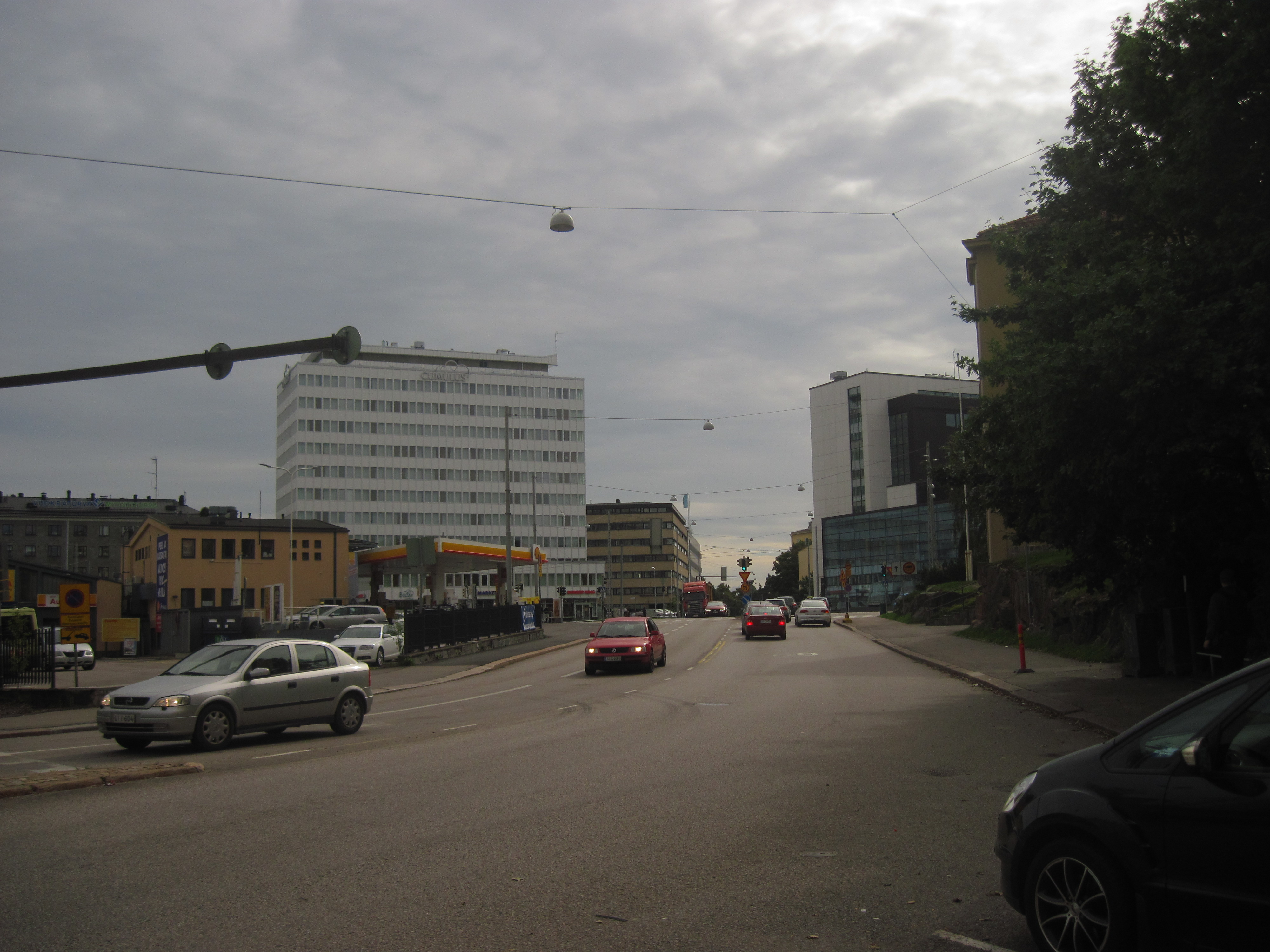 Topeliuksenkatu in Helsinki, as seen from its Northern end